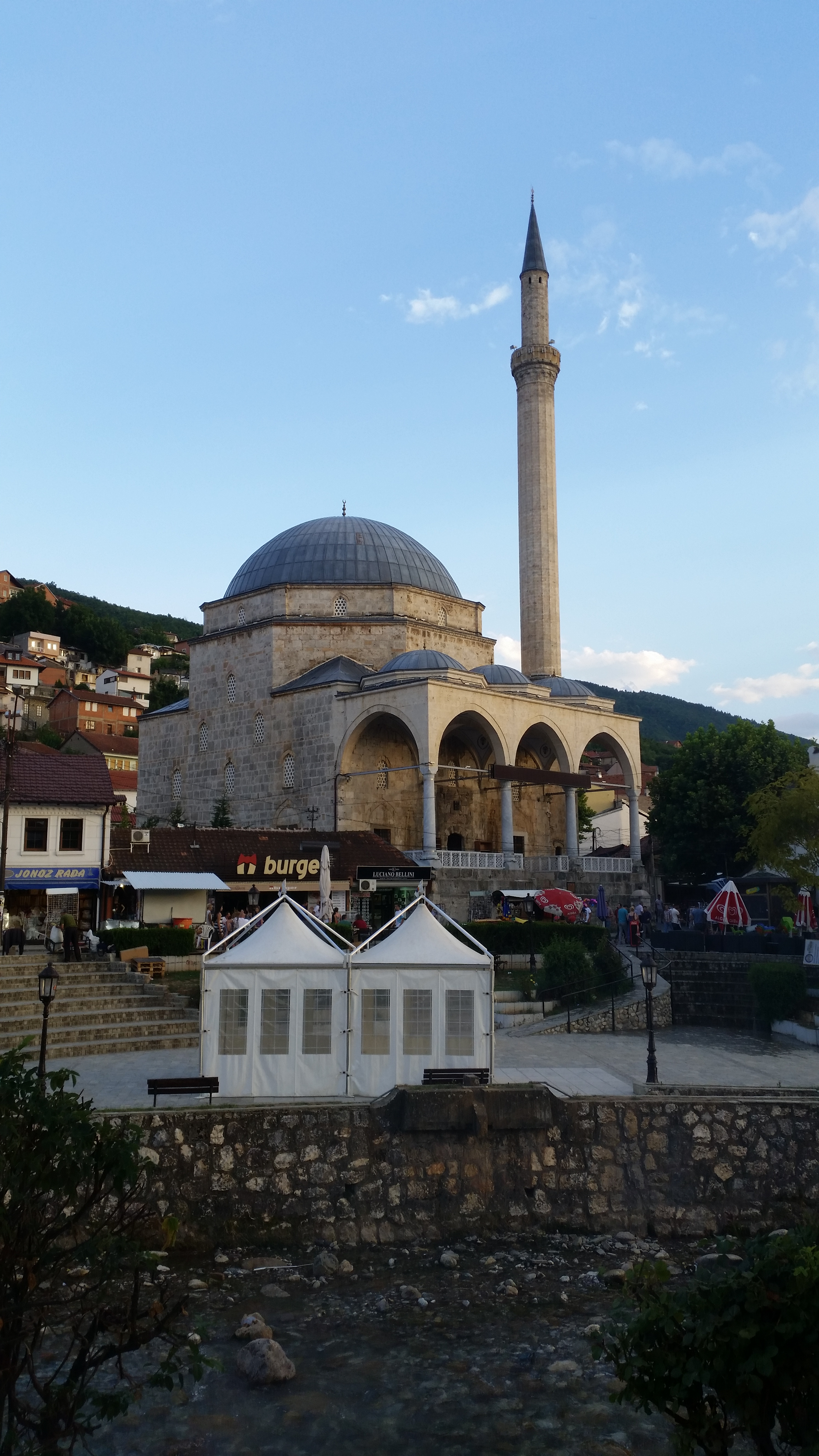 Sinan Pasha Mosque in Prizren